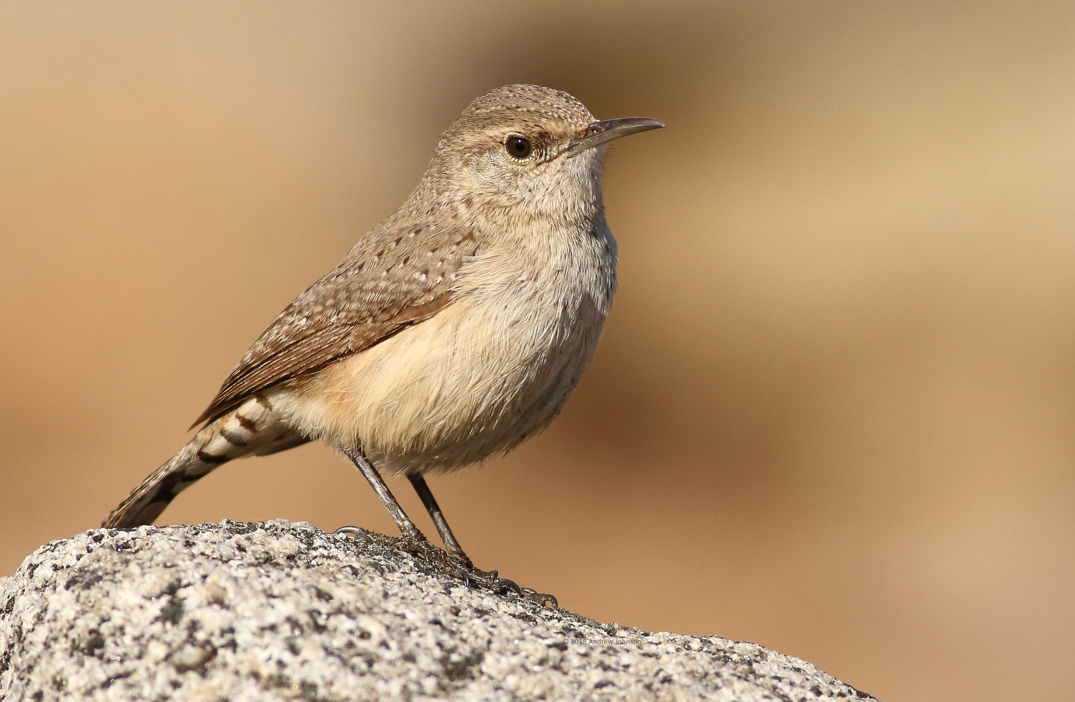 Rock Wren in Granite Bay, California